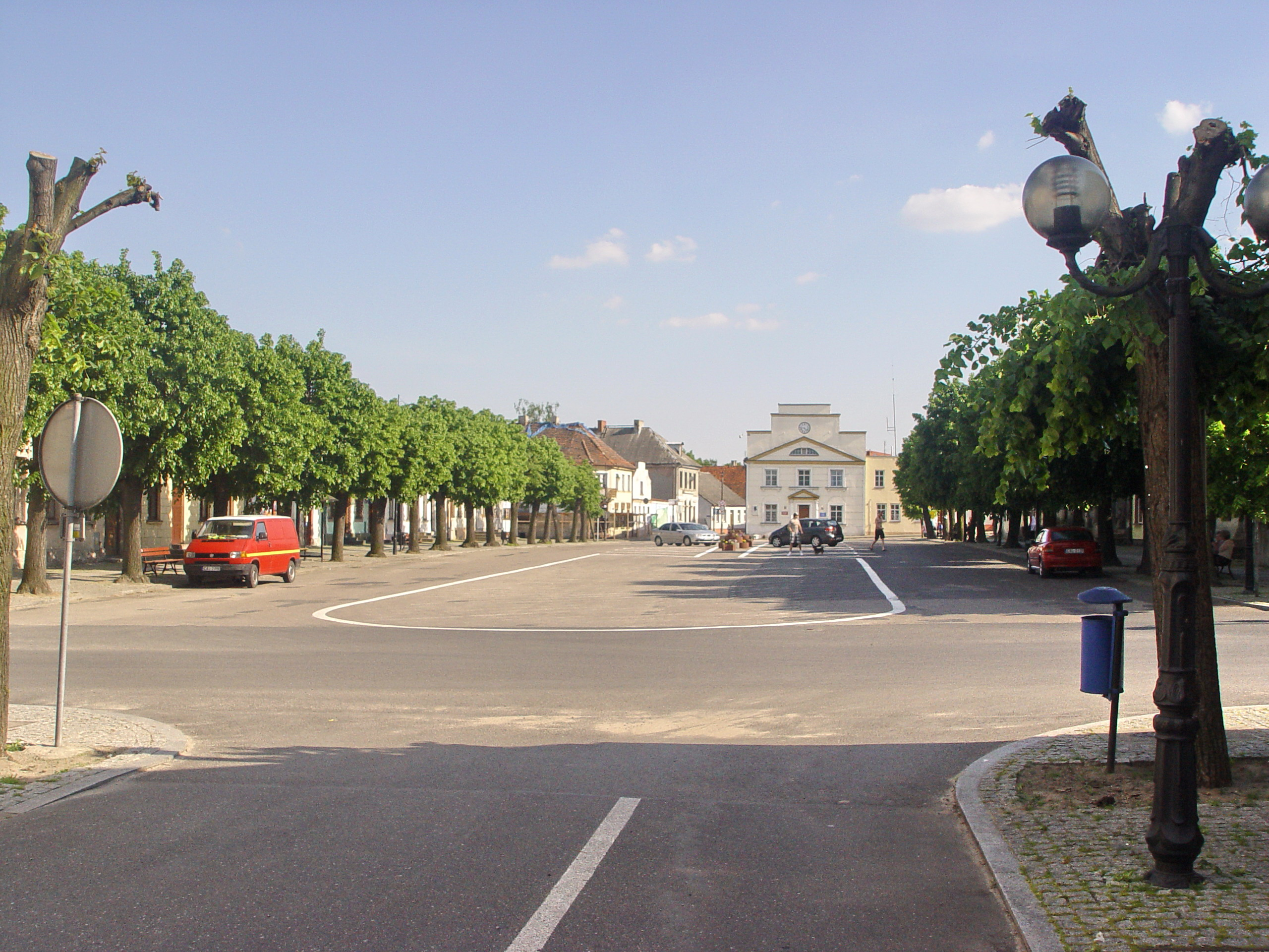 Nieszawa - market, pl. Casimir Jagiellończyk, the view from the north, from the street Noakowski